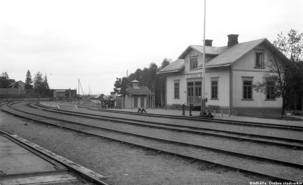 Vikersvik railway station outside Nora, Sweden